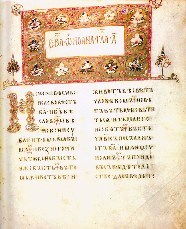 First known russian manuscript Ostromir Gospel. It was created by deacon Gregory for his patron, Posadnik Ostromir of Novgorod, in 1056 or 1057. Shown List 2.